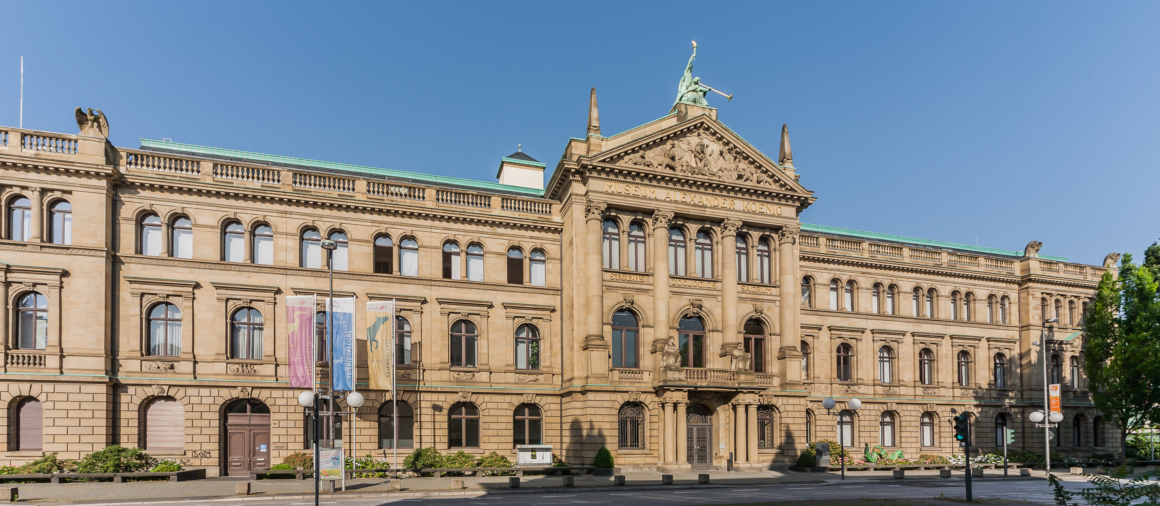 Museum Koenig, Adenauerallee 160, Bonn-Gronau